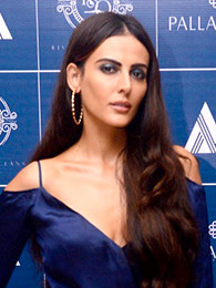 Mandana Karimi grace Rivers To Ocean restaurant launch, June 2018.